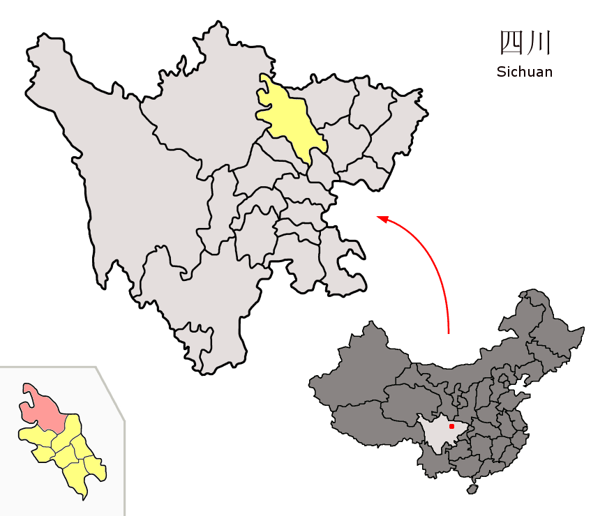 Location of Pingwu County (pink) and Mianyang Prefecture (yellow) within Sichuan province of China Map drawn in october 2007 using various sources, mainly : Sichuan province administrative regions GIS data: 1:1M, County level, 1990 Sichuan Counties map from